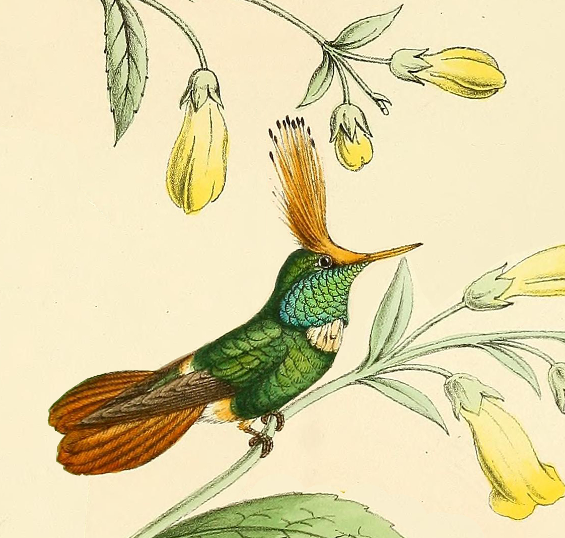 Telamon strictilophushummingbirds. Hand Colored Lithograph. 12 1/2 x 9 inches Now Lophornis stictolophus (Spangled Coquette)